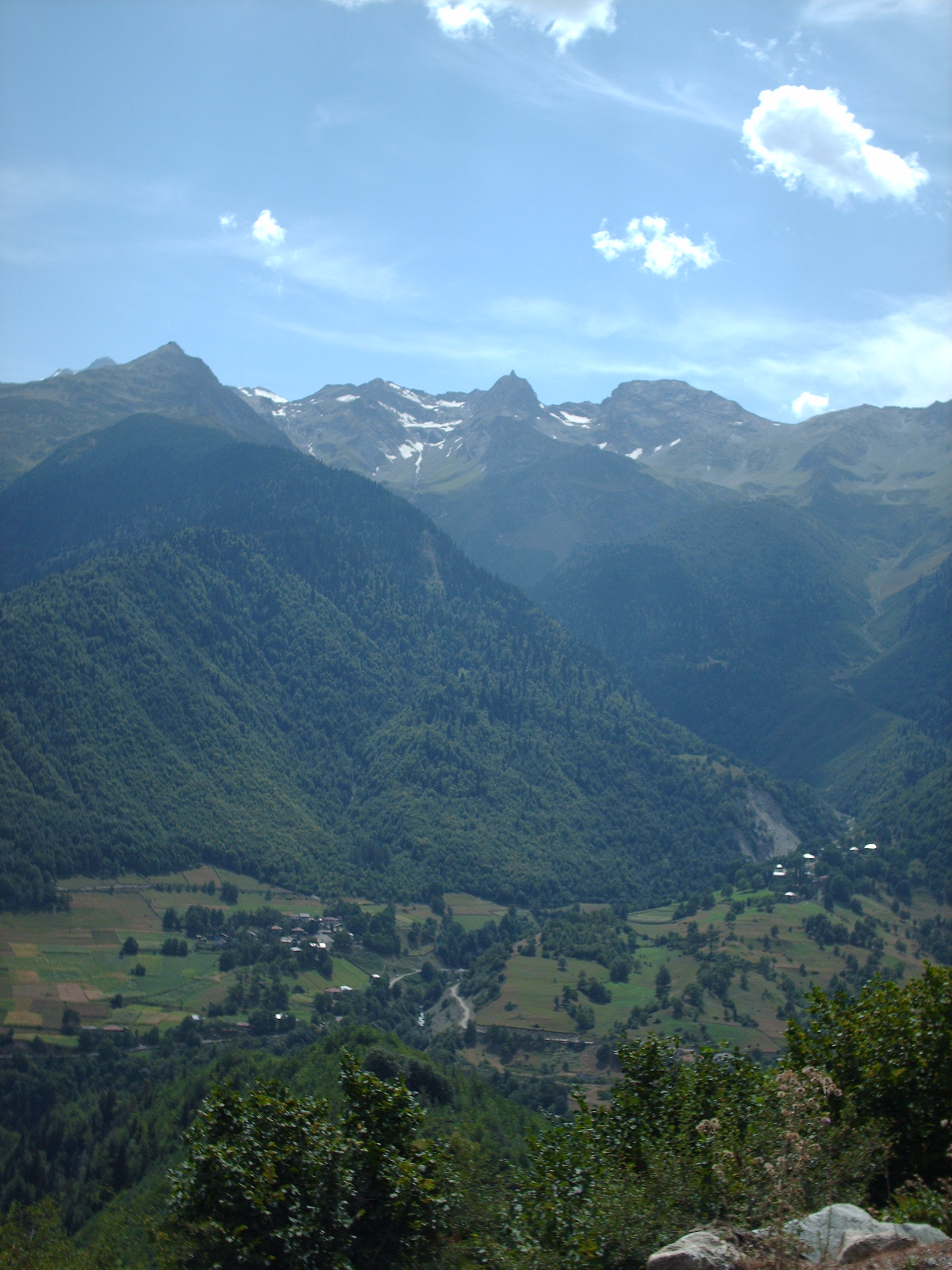 photo by: Ann Schiff